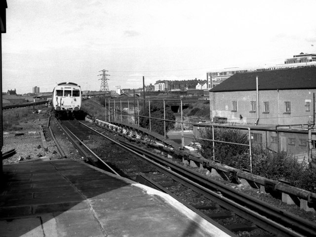 Sandhills railway station Original description: Electric train at Sandhills Sandhills is the first station out of Liverpool Exchange on the electrified ex-LYR route to Southport. Here a Liverpool bound train approaches Sandhills station in a typical background of urban clutter.